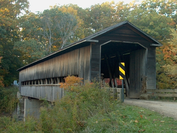 A photograph of Middle Road Covered Bridge, located in Ashtabula County, Ohio.